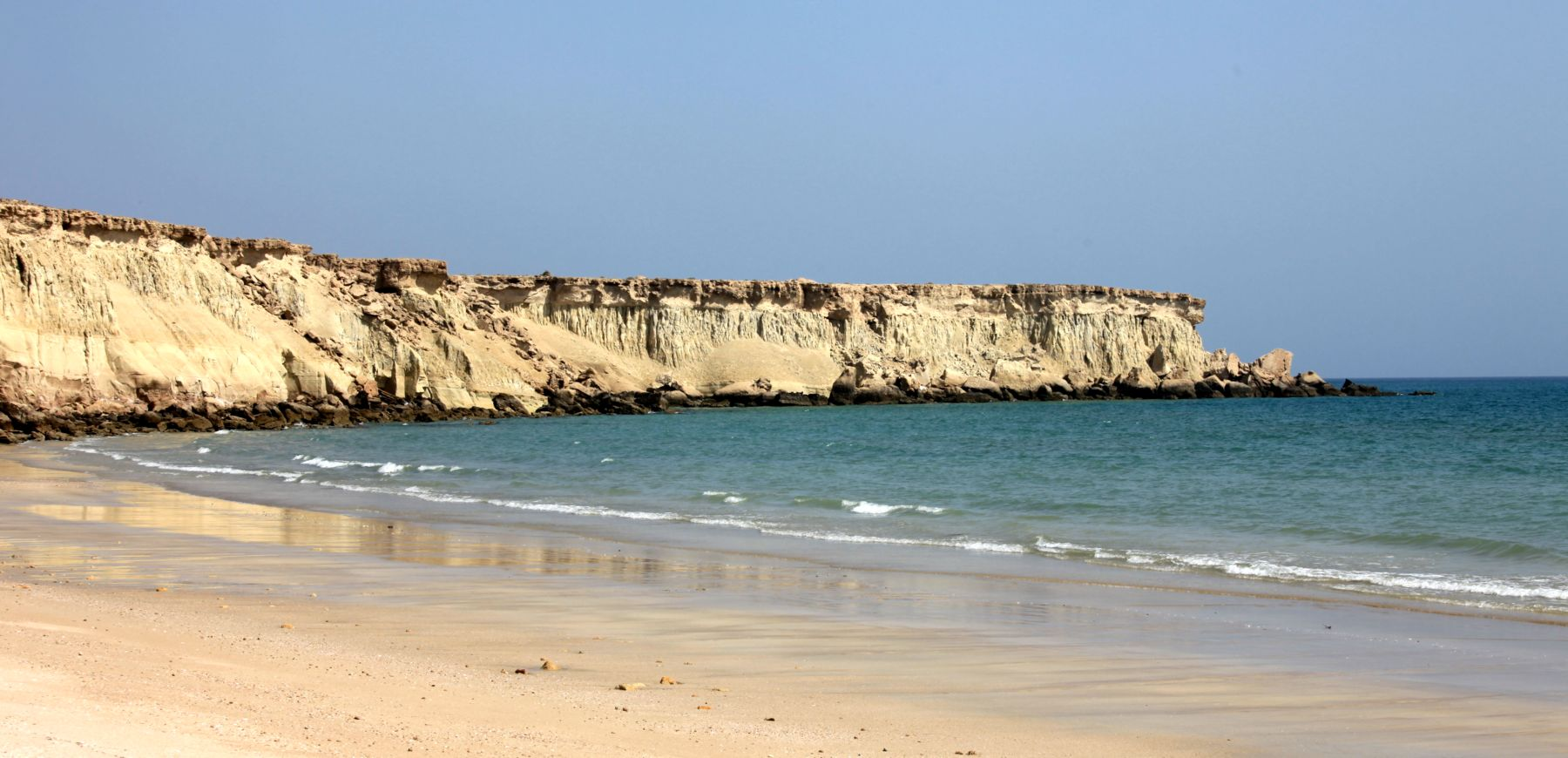 Qeshm, Persian Gulf, Iran. One of the empty beaches at Qeshm Island